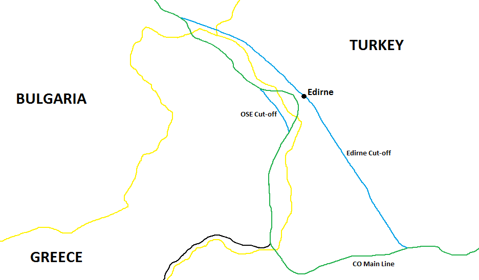 The current rail situation around Edirne.